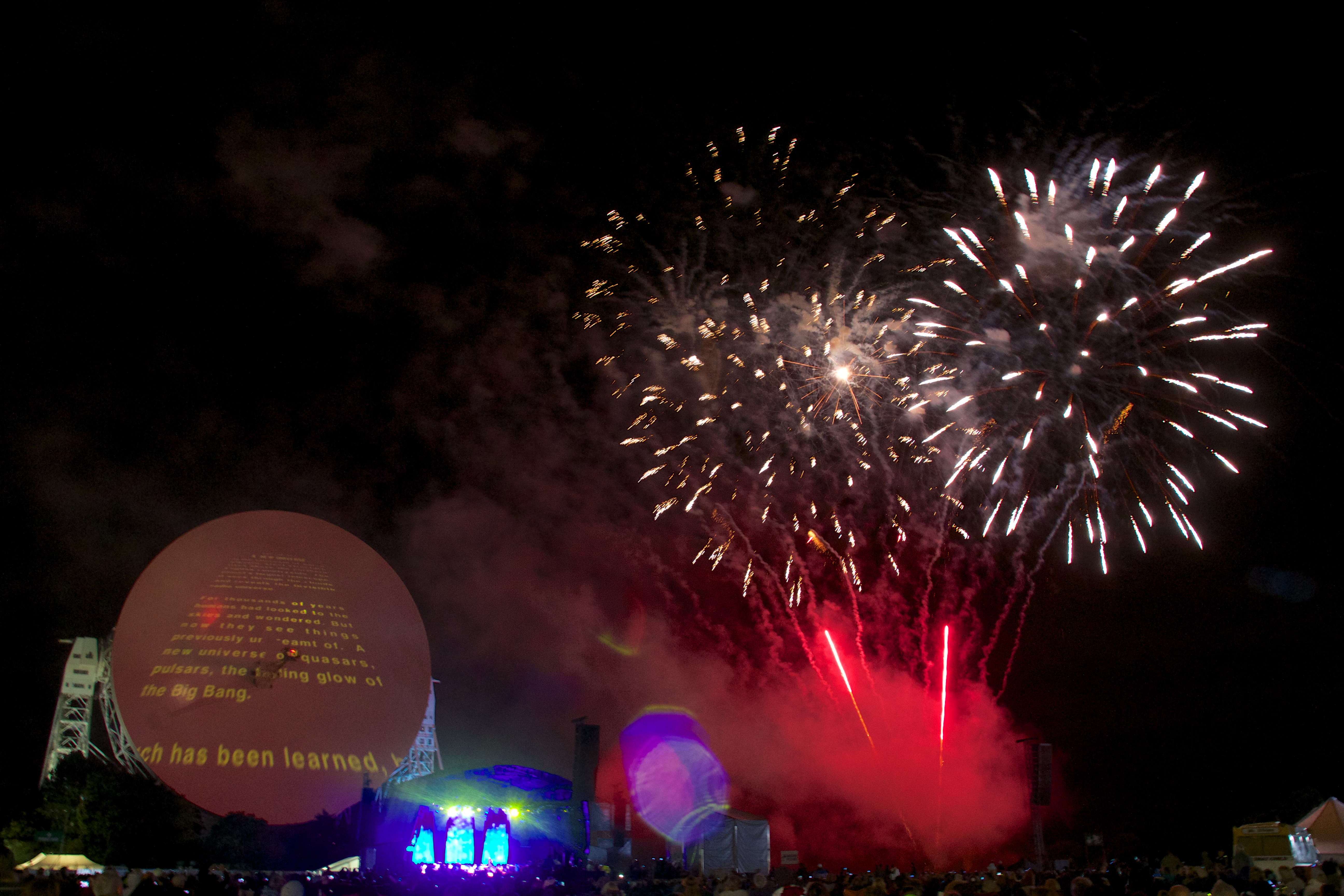 The Hallé at Jodrell Bank Live, Jodrell Bank Observatory.